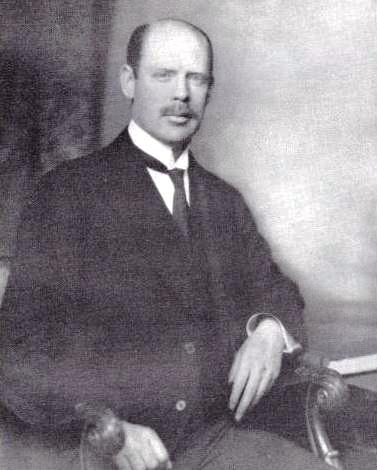 Swedish minister of defence 1931-1932, Anton Rundqvit (1885-1973)